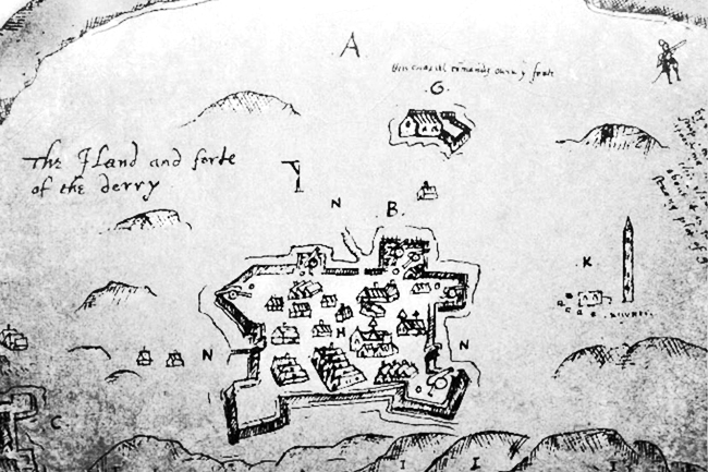 "The land and fort of Derry”, oldest known map of English colonial fort Derry, dated 27 December 1600. Derry was sacked and burned by the O'Doherty & McDavitt clans in 1608.